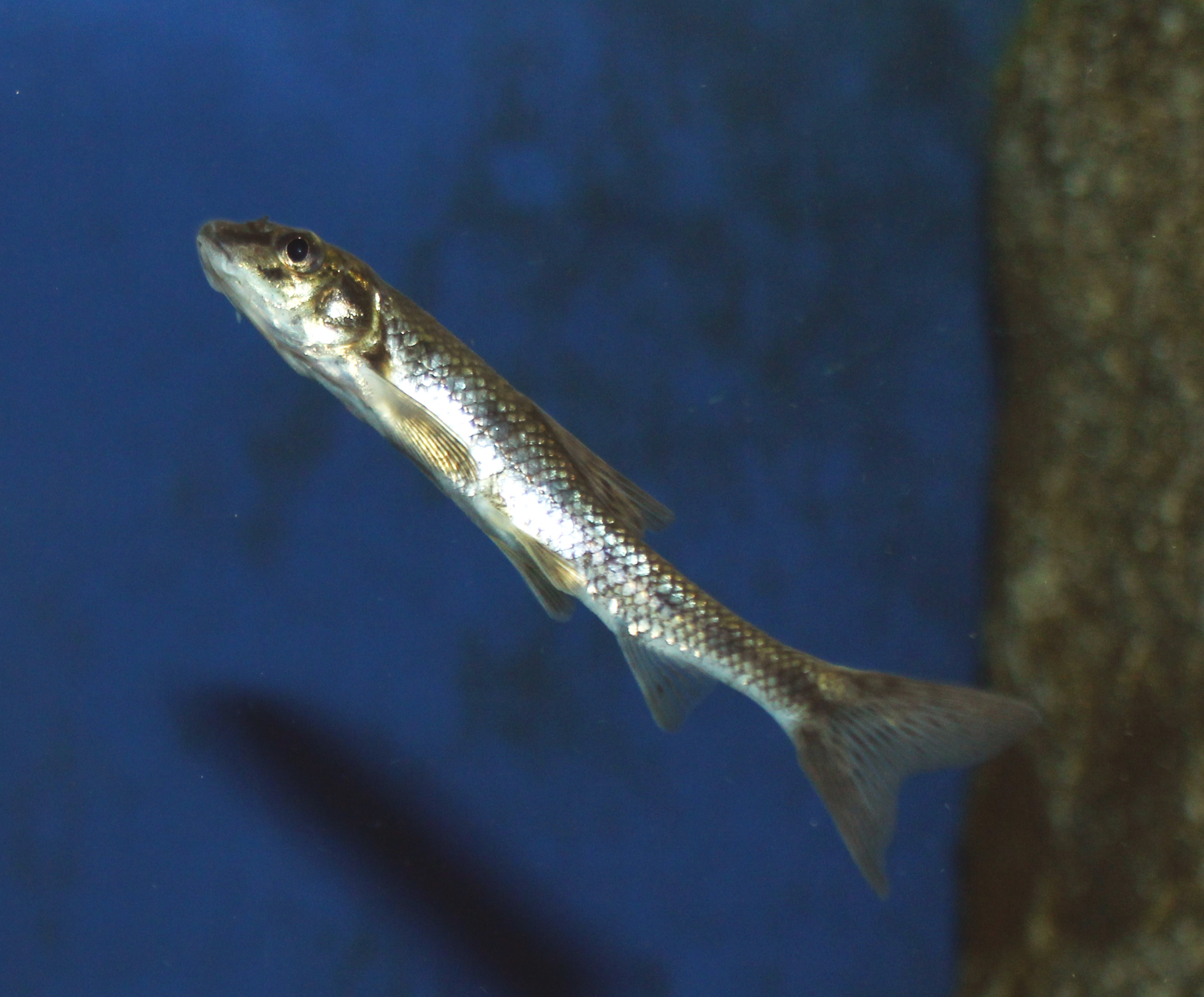 Gudgeon on exhibition Subaqueous Vltava, Prague 2011, Czech Republic